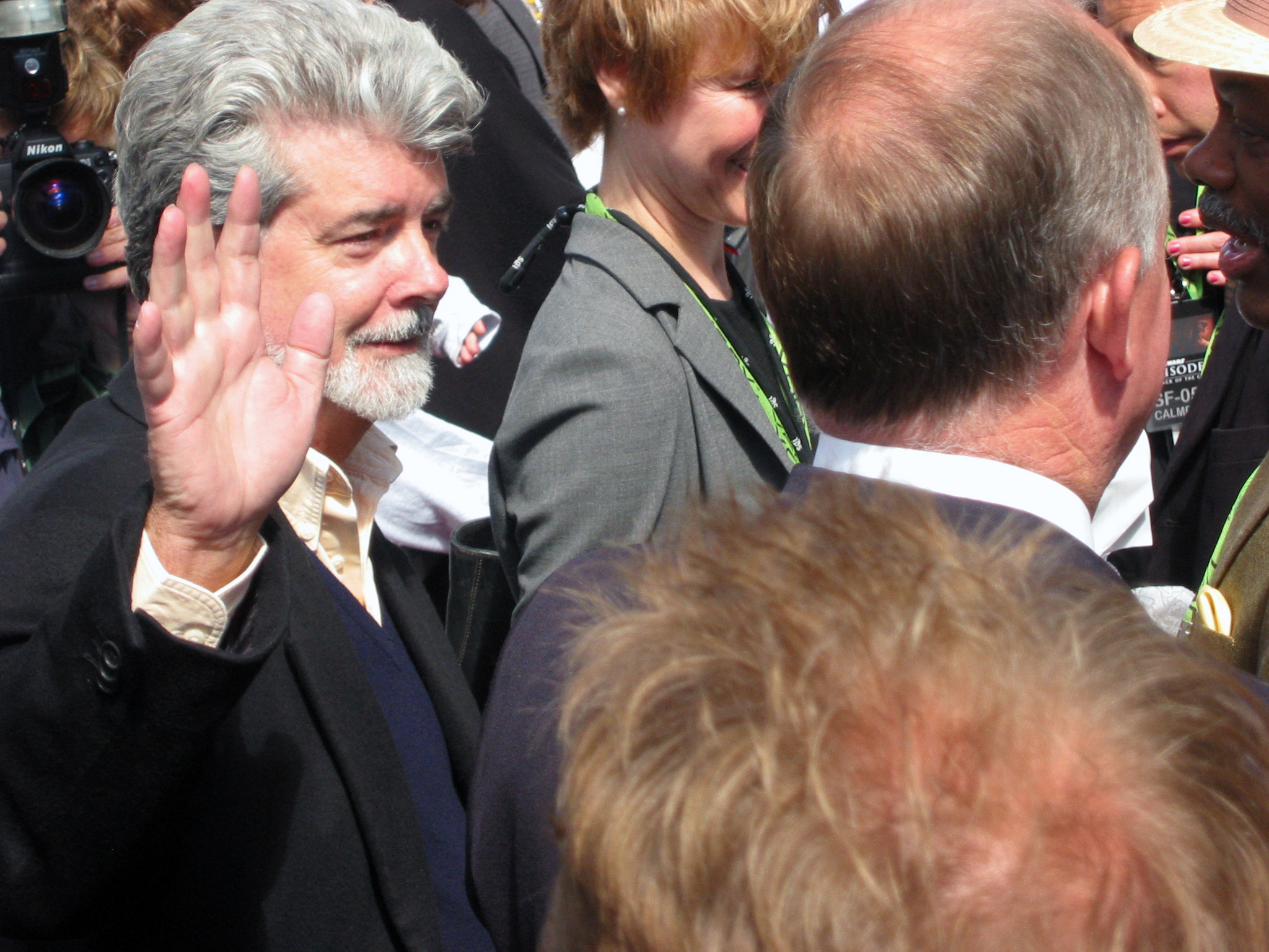 George Lucas in San Francisco. Orginal description: This was taken 5 years ago when I was living in San Francisco. It was late morning as I was walking to class and saw Stormtroopers in front of the AMC Theater on Van Ness. I didn't know what I was waiting for but before long, George Lucas, Carrie Fisher, and a few others showed up! I asked around and it was the cast and crew advanced screening for Star Wars Episode II - Attack of the Clones.